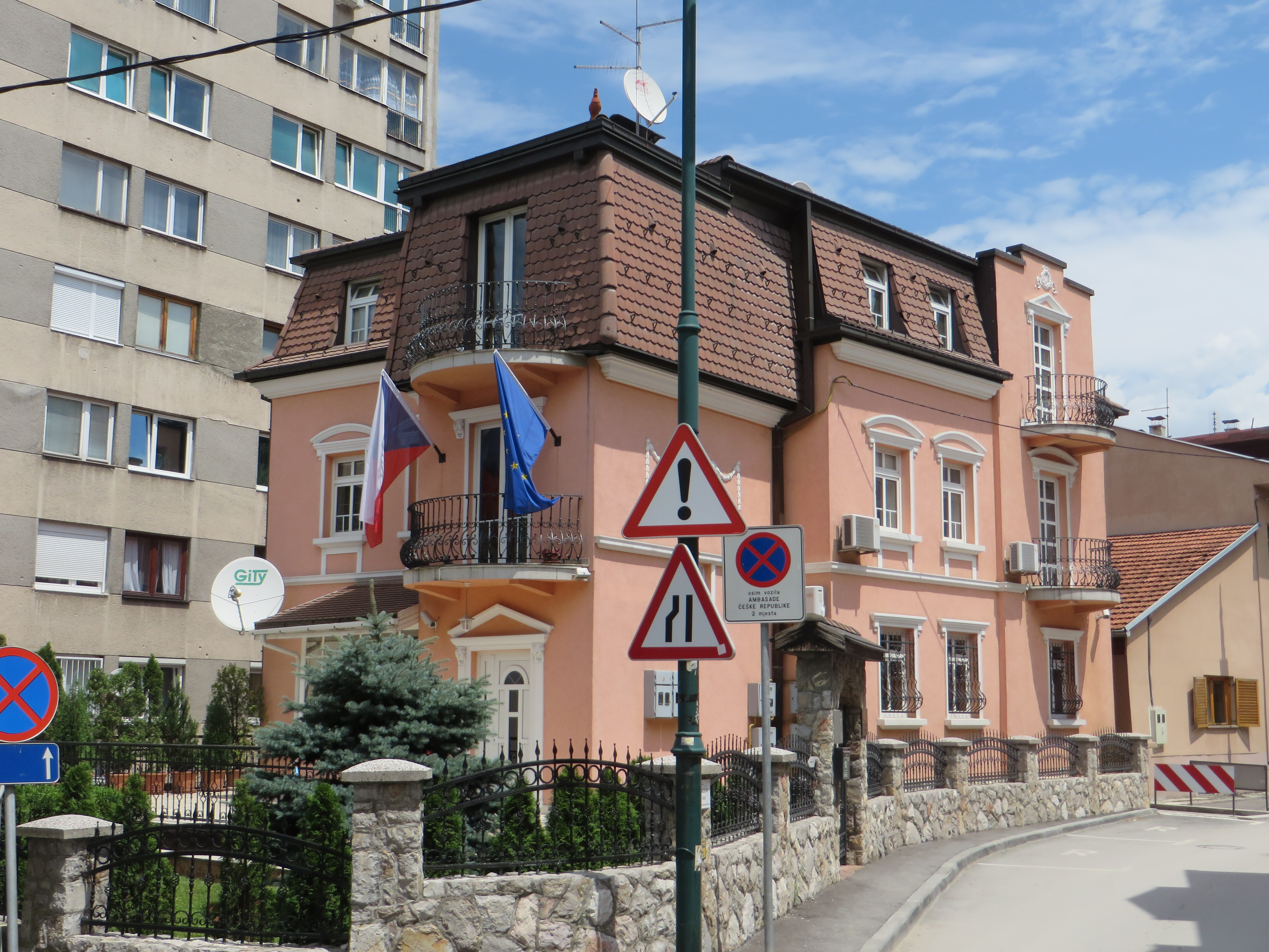 Czech Embassy in Sarajevo